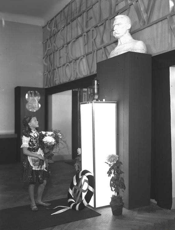 A girl (Hanna Zawadzka) reciting a poem in front of Józef Piłsudski's bust.